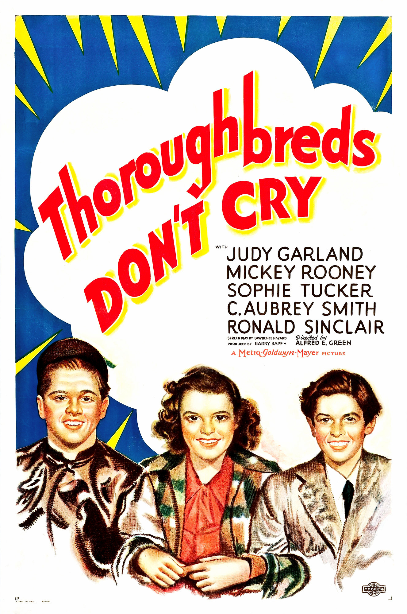 Poster for the 1937 film Thoroughbreds Don't Cry. The item has no copyright markings on it as can be seen in the links above. At bottom is a letter "D" (poster version D), Litho in USA and some numbers which probably pertain to the print job for the poster. At bottom right is a logo for the Tooker Litho Company--they printed the poster.